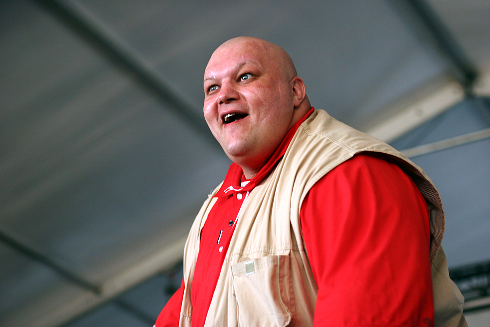 Stas Boretsky, a rapper